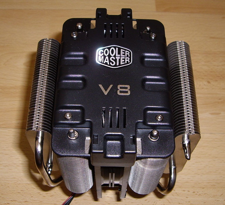 Cooler Master V8 heatsink and fan assembly, for cooling computer processors.